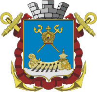 Today's coat of arms of Nikolaev, approved in September 26, 1997